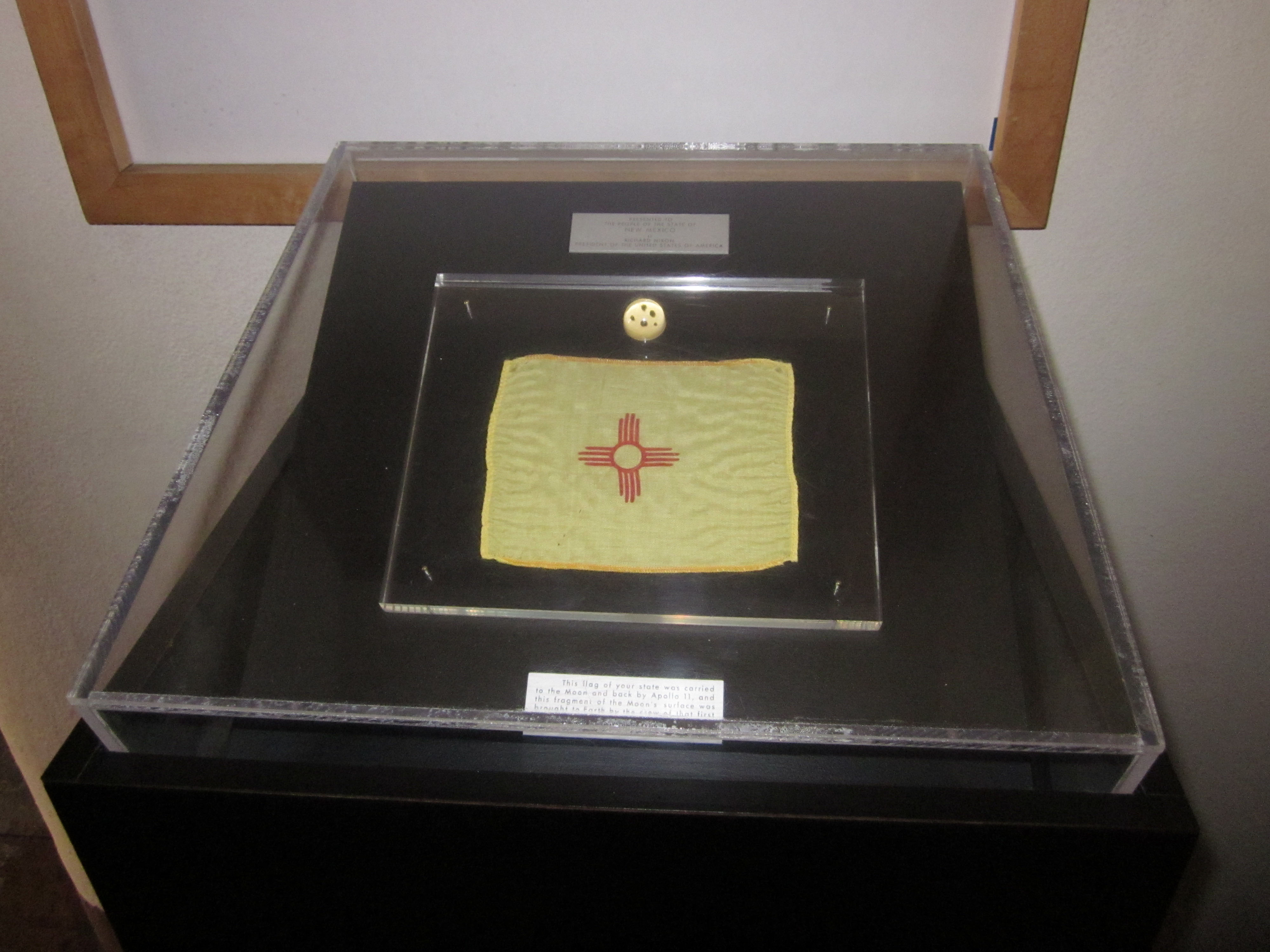 Apollo 11 moon rocks with New Mexico flag